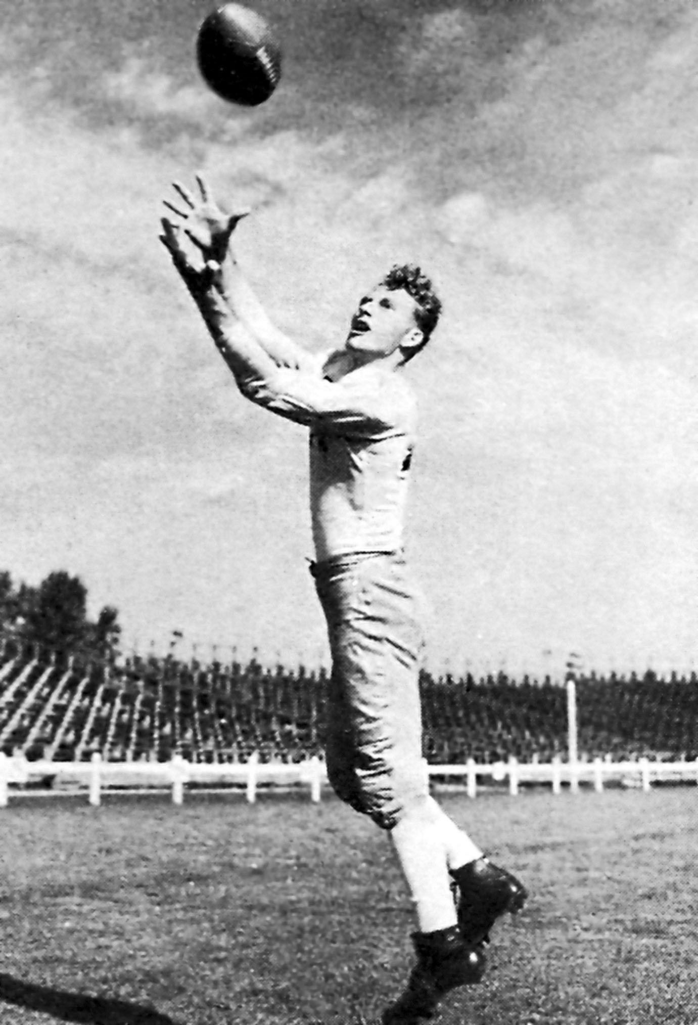 Don Hutson (1913-1997), American Football Player. Image first published in Howard Roberts, "Who's Who in the Major Leagues Football." Chicago: B.E. Callahan, [1940]; pg. 3. Published in the USA between 1923 and 1978 with no copyright notice in original publication, public domain. No photographer credited. Digitized and digital editing by Tim Davenport ("Carrite") for Wikipedia, no copyright claimed, released to the public domain without restriction. Grain removal by Storkk, using wavelet decomposition in GIMP: no authorship rights claimed for this.